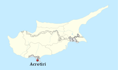 Akrotiri